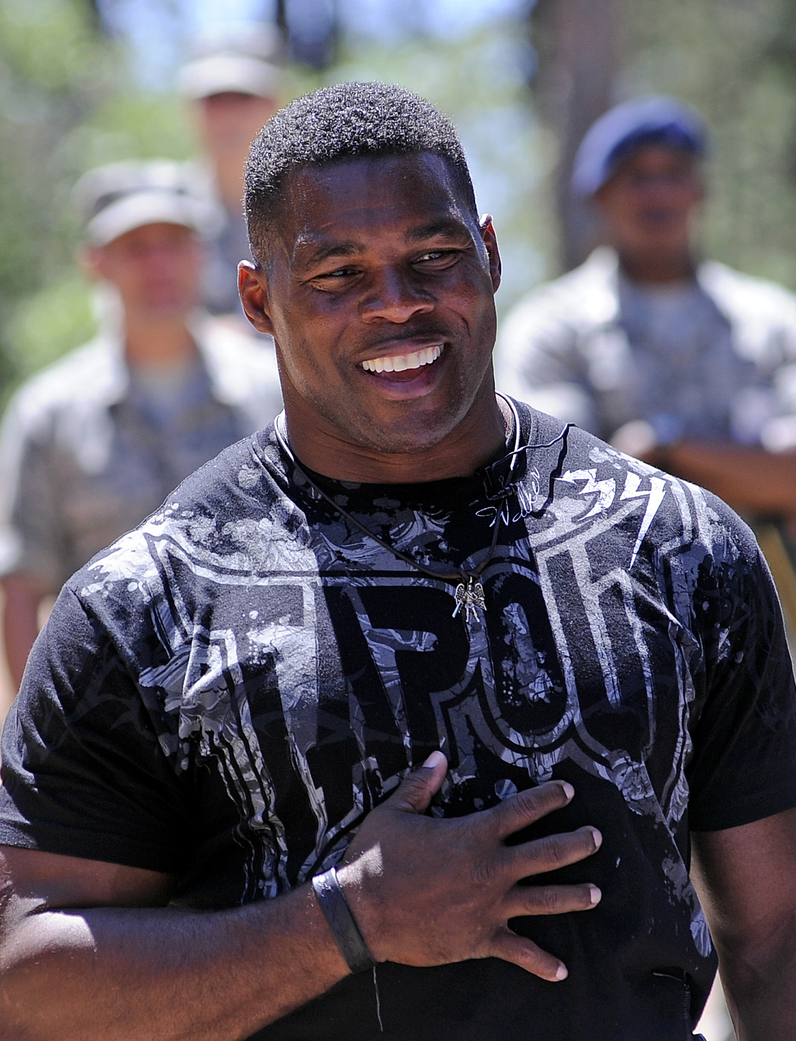 Football great Herschel Walker speaks to the Class of 2016 during Basic Cadet Training in the U.S. Air Force Academy's Jacks Valley in Colorado Springs, Colo. July 17, 2012. Walker spent time talking to the Class of 2016 about resiliency, his own personal struggles in life and encouraged the cadets to reach out and seek help if they need it. Headquarters, United States Air Force Academy.